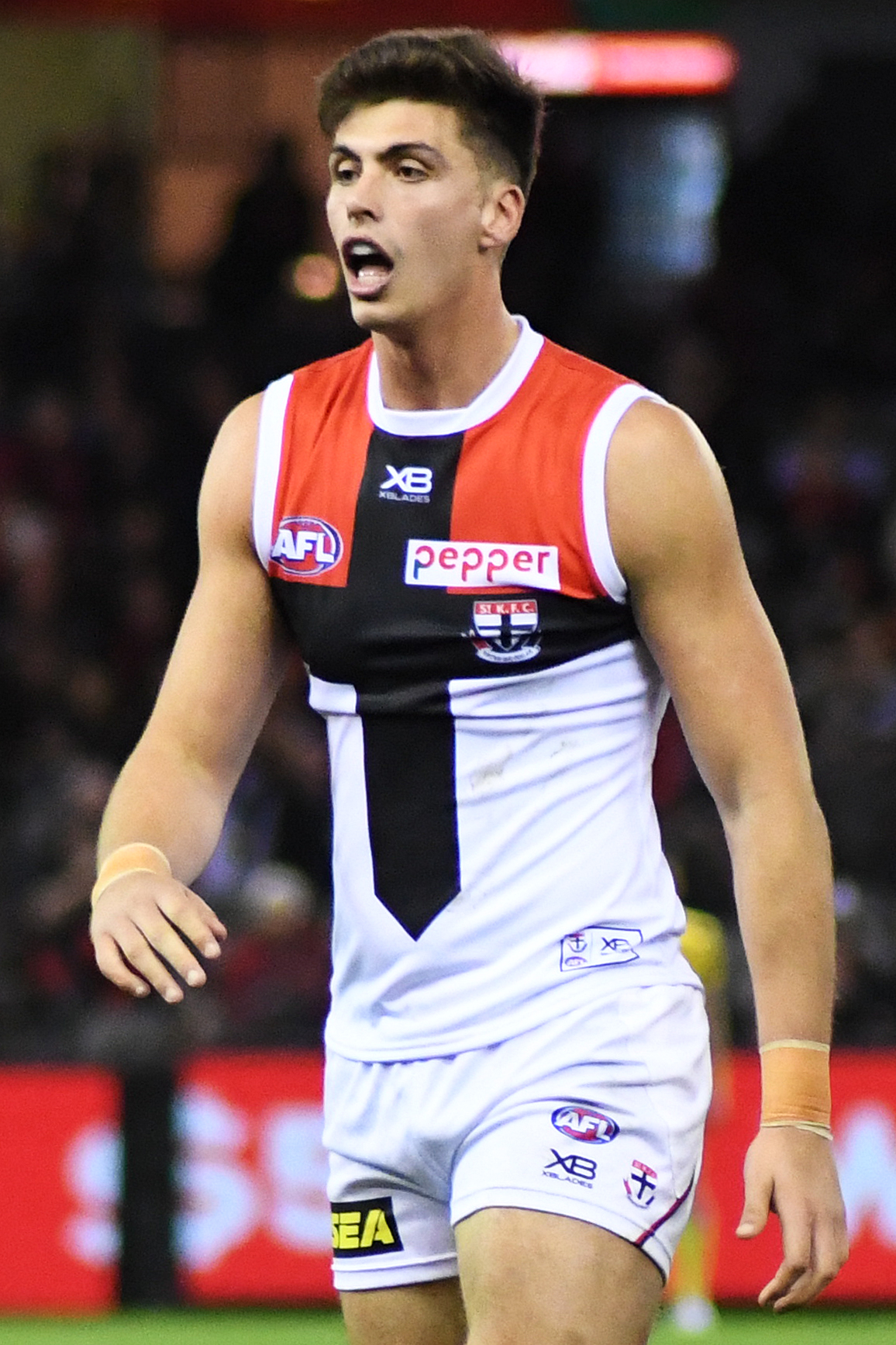 Lewis Pierce of St Kilda during the 2018 AFL round 21 match between Essendon and St Kilda at Etihad Stadium on Friday, 10 August 2018 in Melbourne, Victoria.